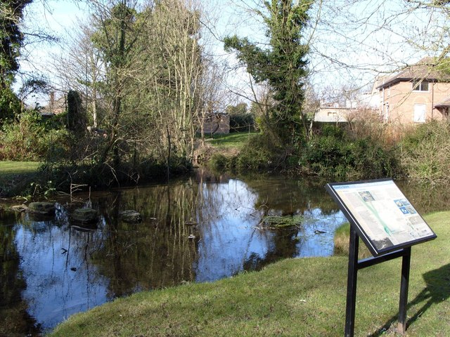 Giant's Grave, Cherry Hinton The Giant's Grave is a pond and stream just behind and below the Cherry Hinton village sign.